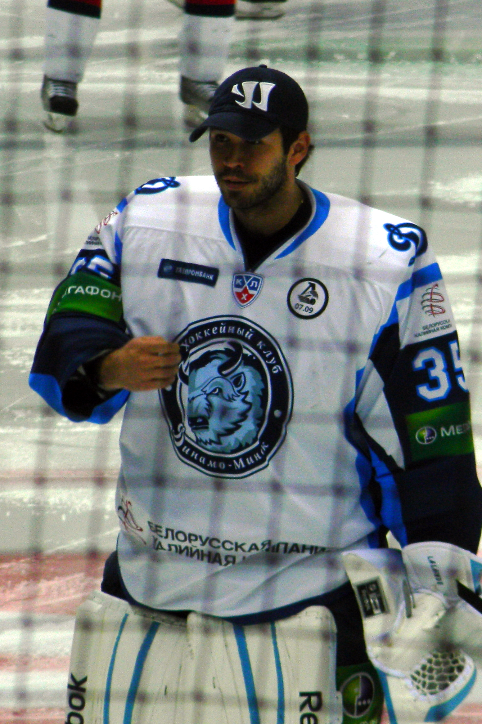 Kevin Lalande, a Canadian ice hockey goalkeeper from Dinamo Minsk